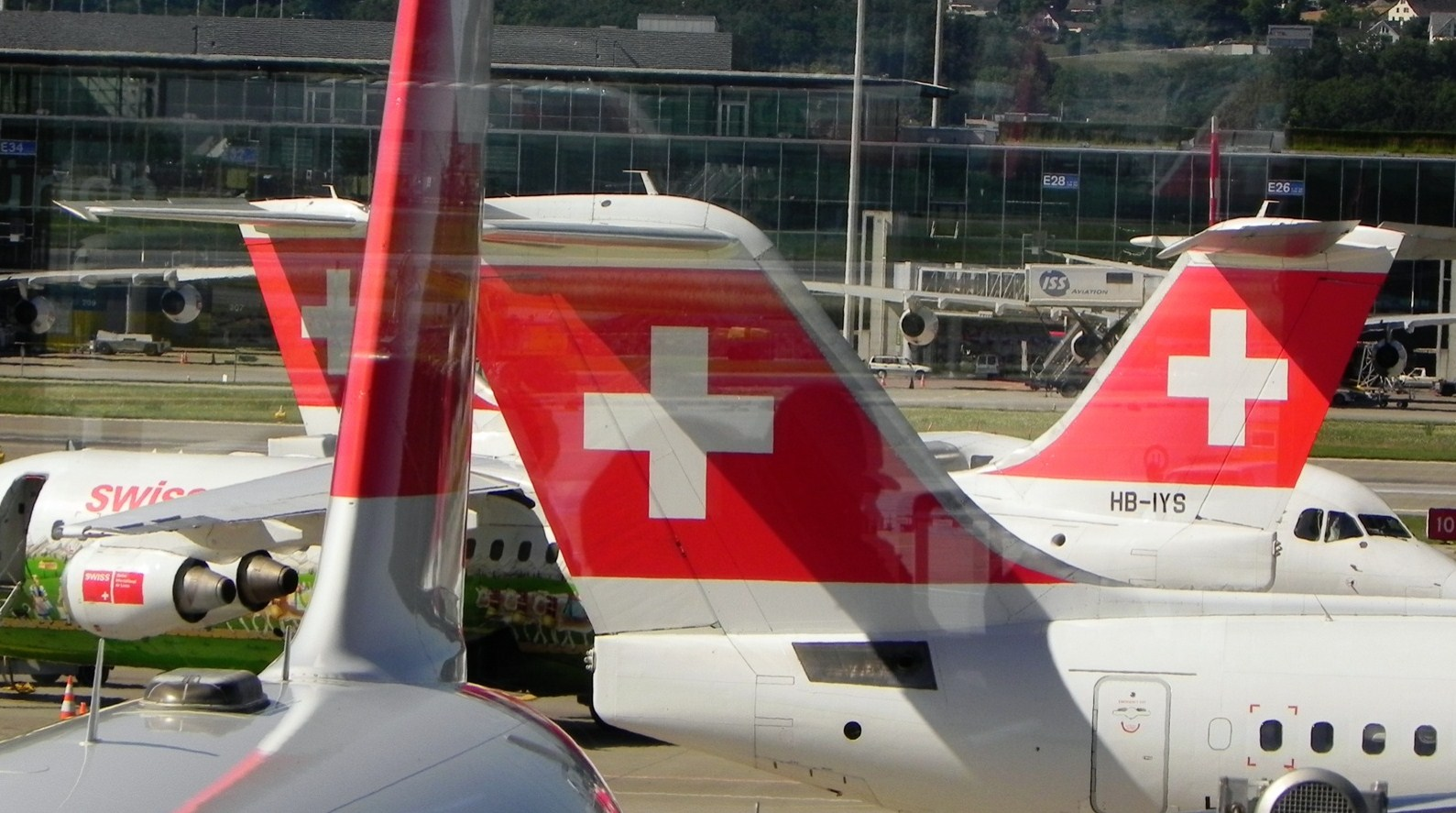 SWISS International Air Lines at Zurich Airport